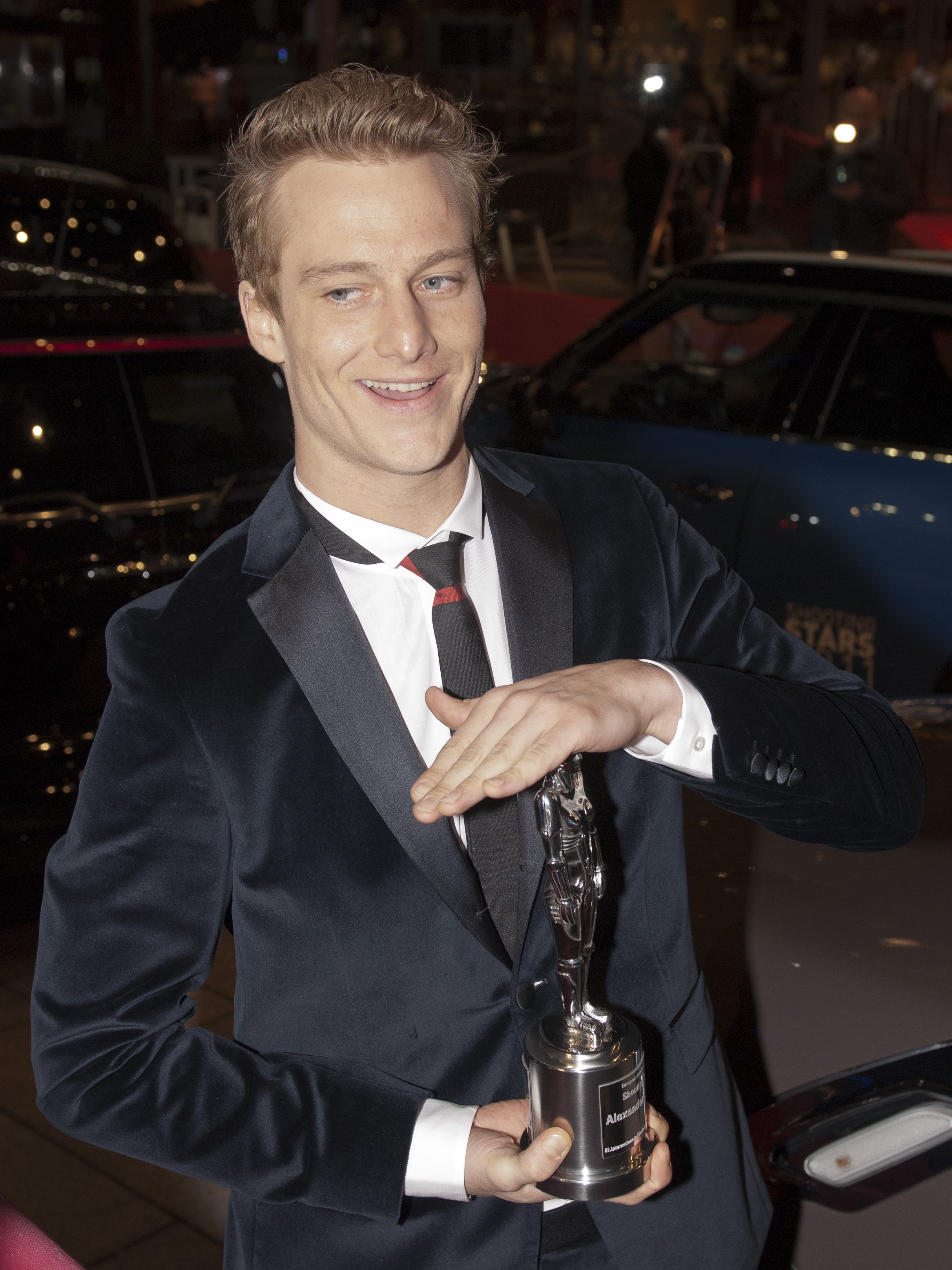 German actor Alexander Fehling after receiving the Shooting Stars Award 2011.